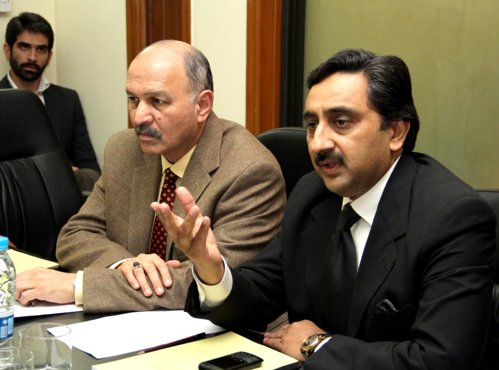 RSIL hosted a roundtable discussion on the Fair Trial Bill, 2012 and its necessity for Pakistan. The discussion was chaired by Senator Mushahid Hussain Syed.